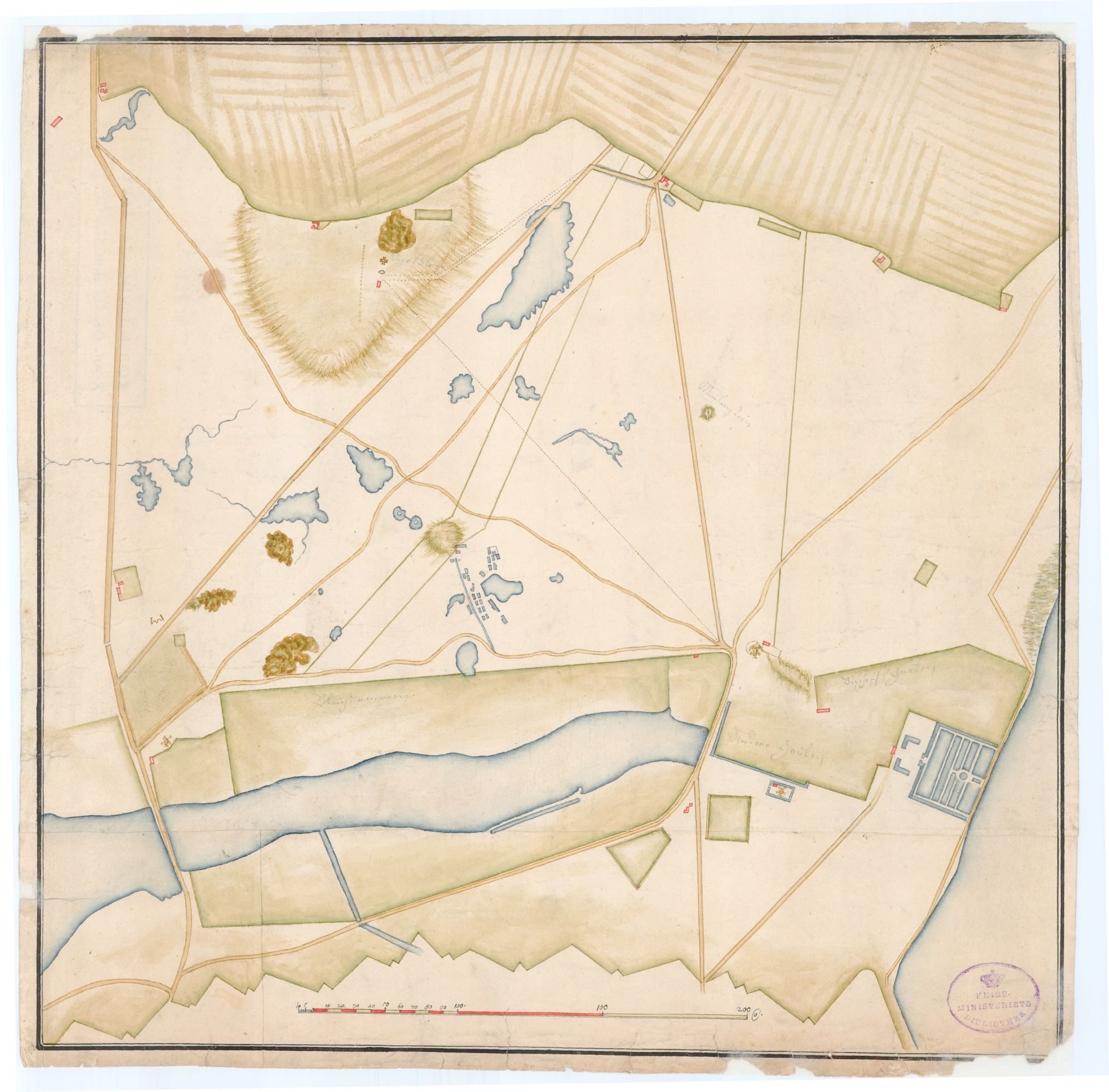 Map from 1695 showing 'blegedammene' by Copenhagen where textiles were bleached